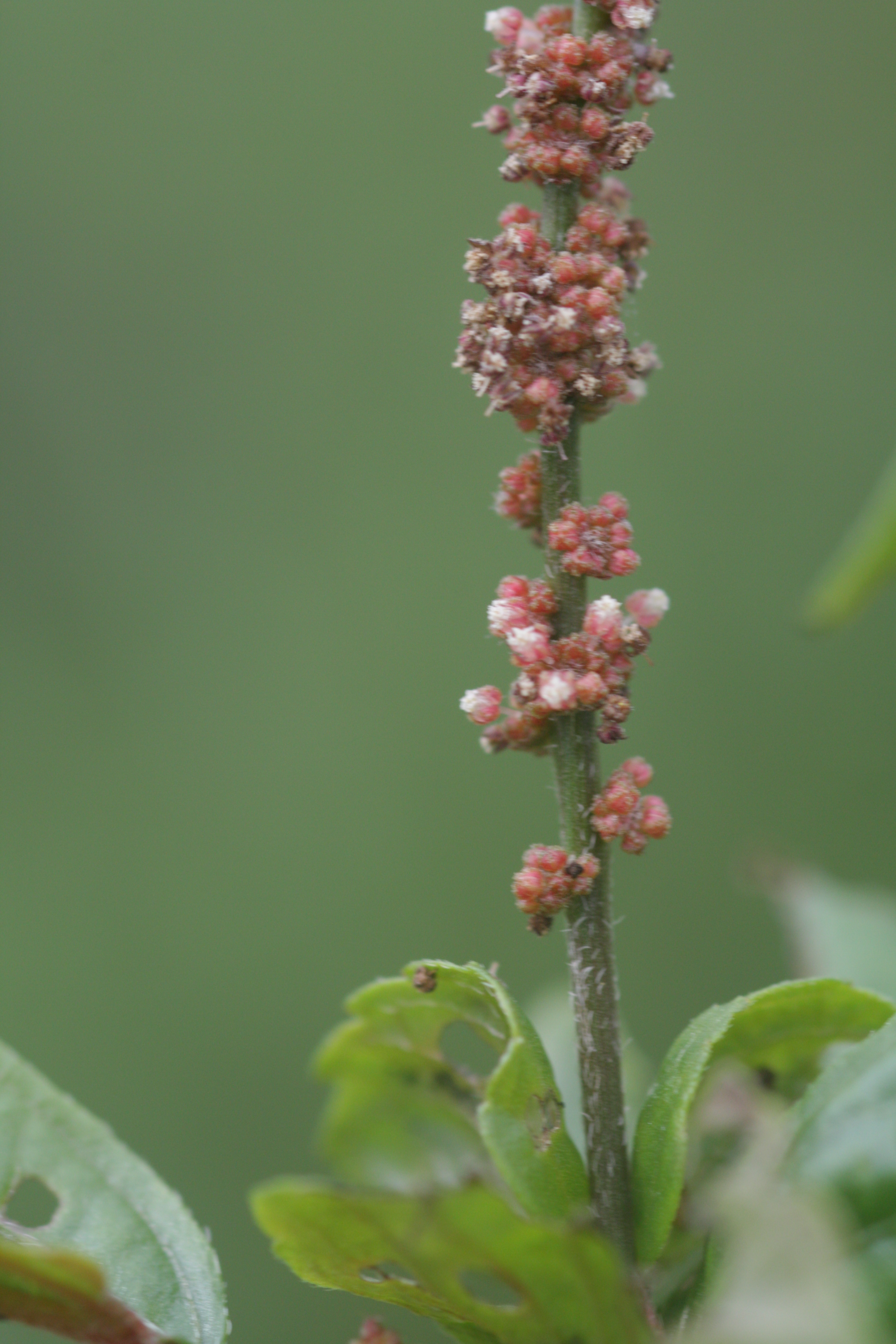 Acalypha australis